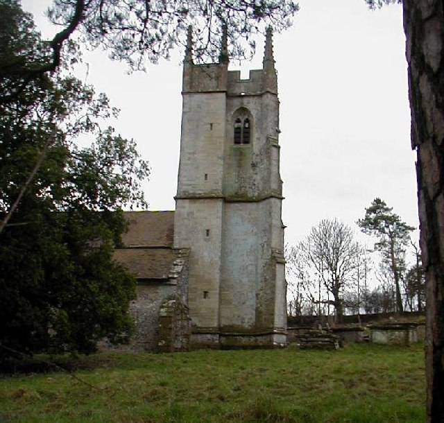 St Giles Church, Imber, Wiltshire, UK.